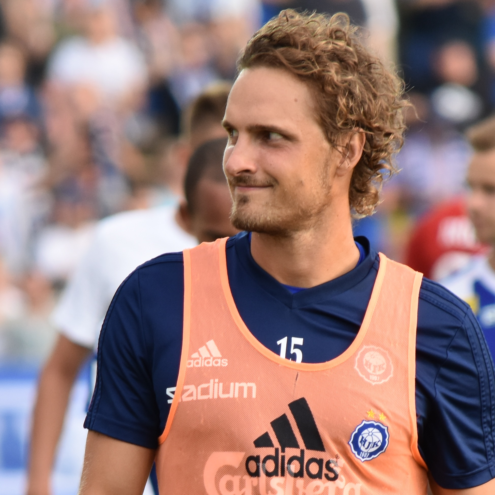 Association football player Ville Jalasto (HJK)